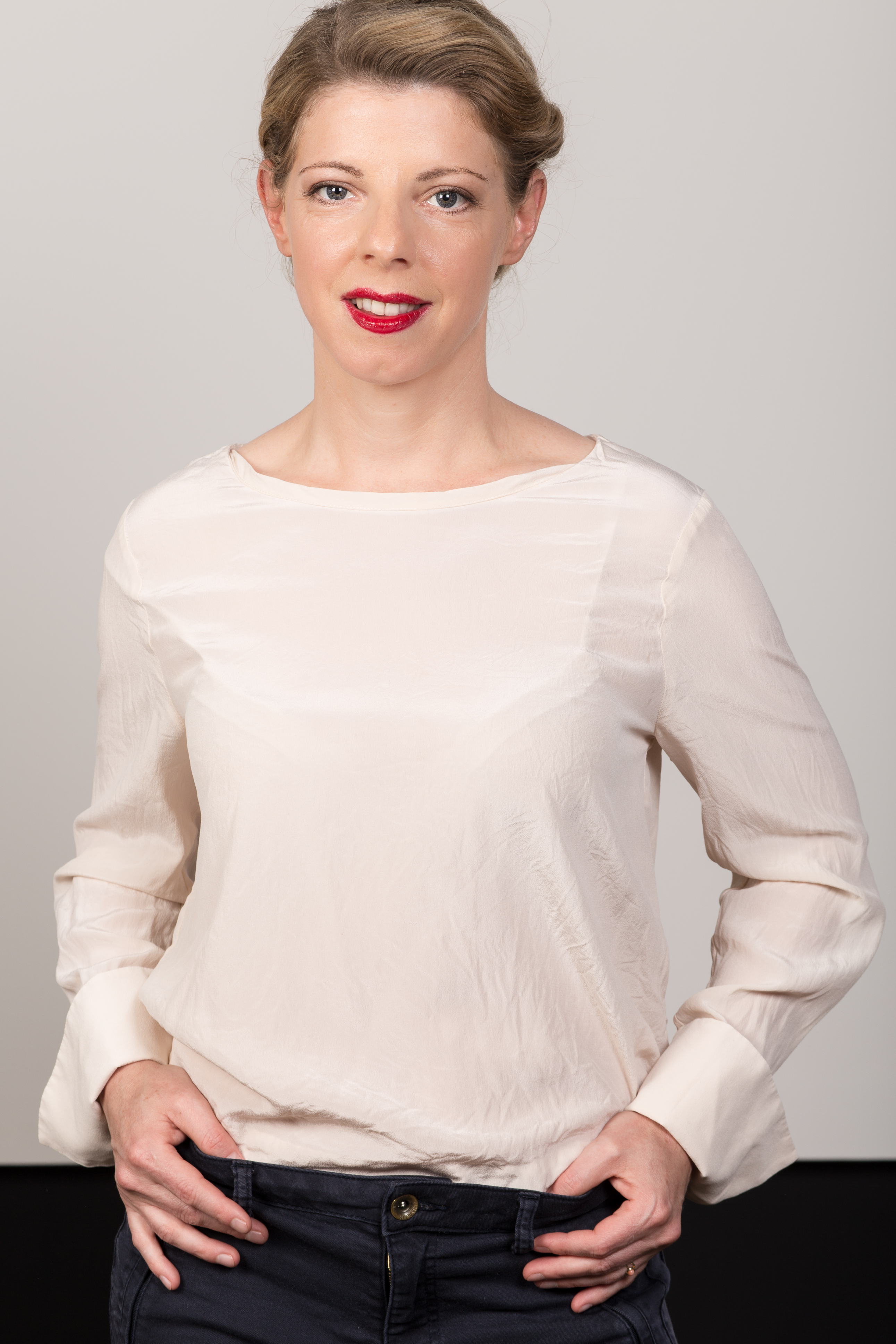 Karin Lischka, Austrian actress